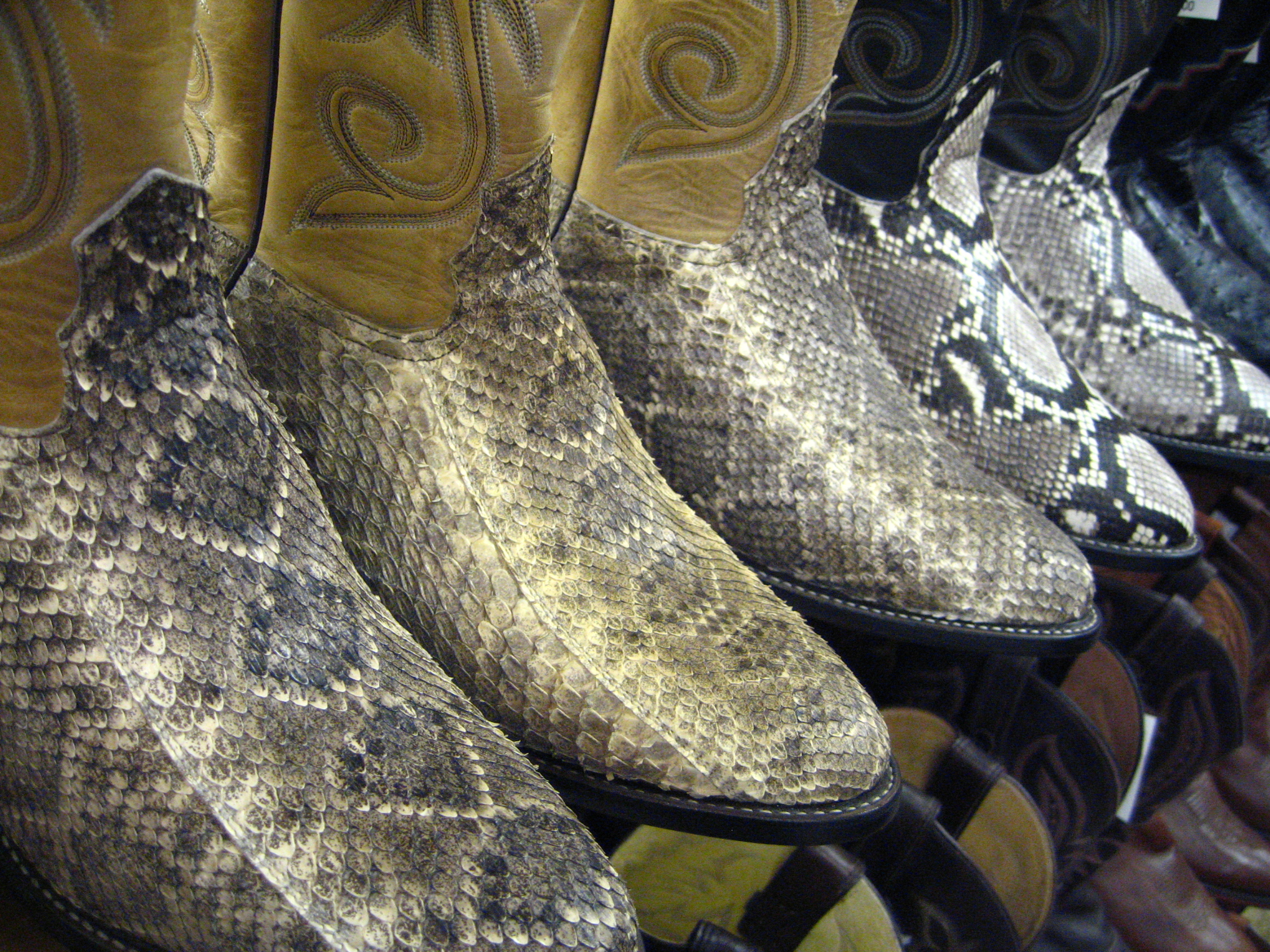 Snakeskin boots, Saba's Western Store, Scottsdale, AZ, USA.